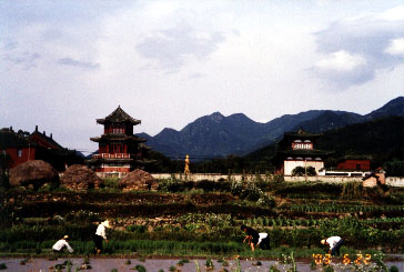 A distant view of Donglin Temple with peasants working nearby fields.